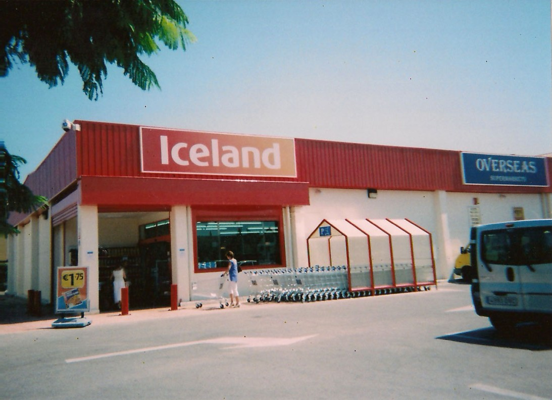 This image shows an Iceland supermarket store in Spain.